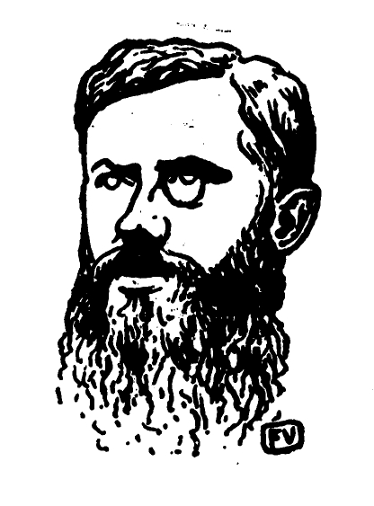 Portrait of French writer Édouard Dujardin (1861-1949) from Le Livre des masques (vol. II, 1898) by Remy de Gourmont (1858-1916)